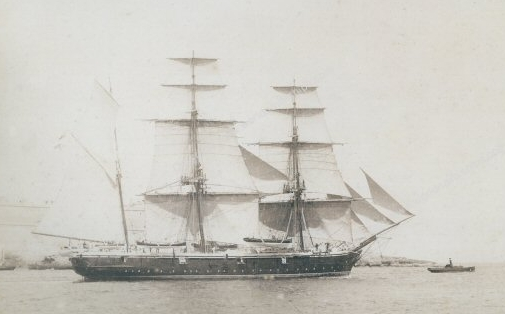 HMS Cruizer (1852) at Malta in 1894 (then named HMS Lark)